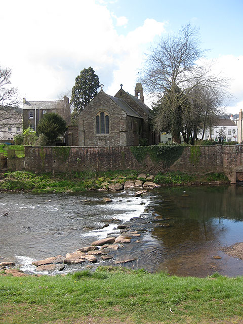 Weir and St. Thomas's Church The weir is just below Monnow Bridge and the church is in Over Monnow. The church dates from 1180 but has had many constructional changes and restoration.